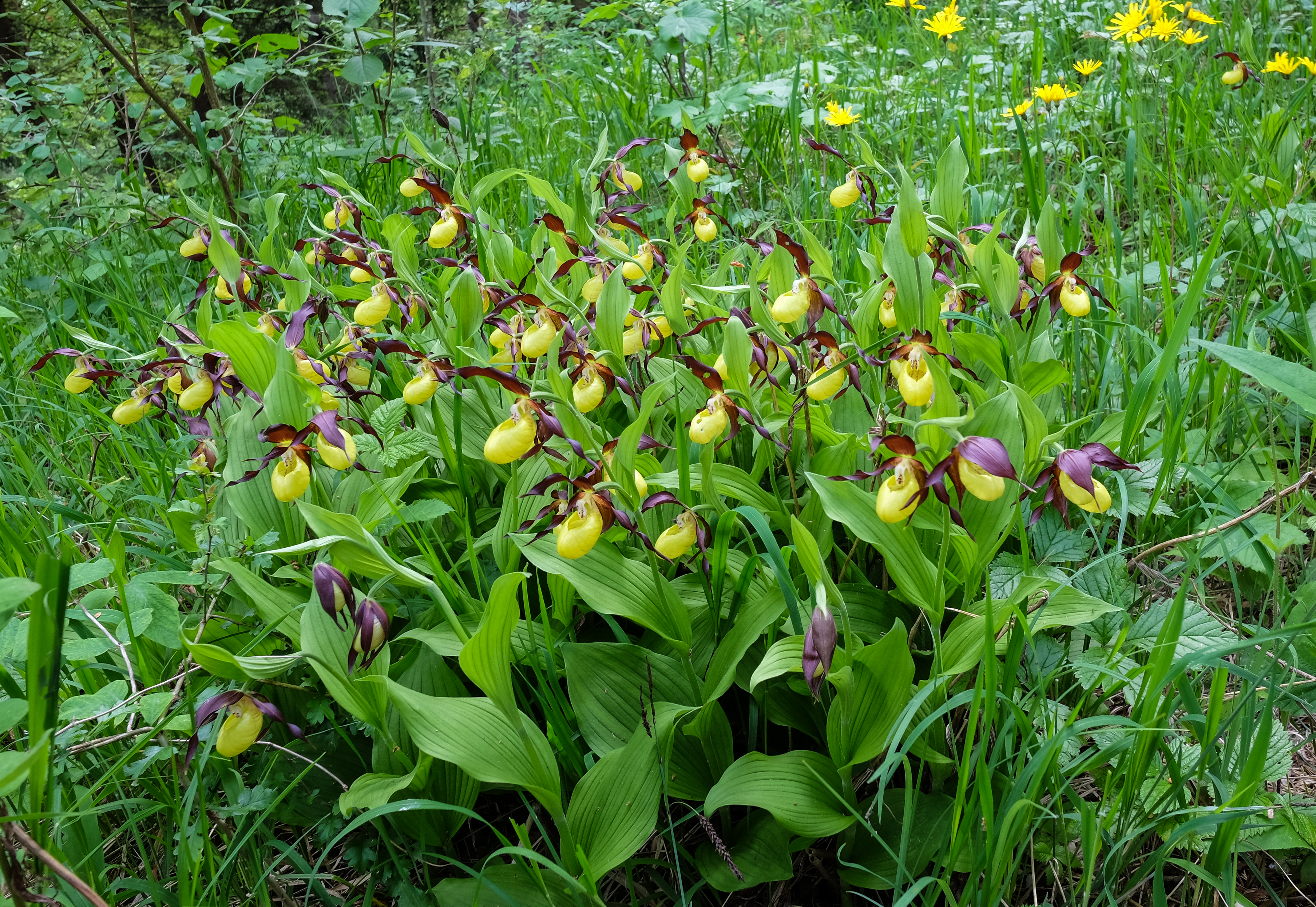 Lady's-slipper orchid (Cypripedium calceolus), Nature reserve Tannbüel, Bargen, canton of Schaffhausen, Switzerland